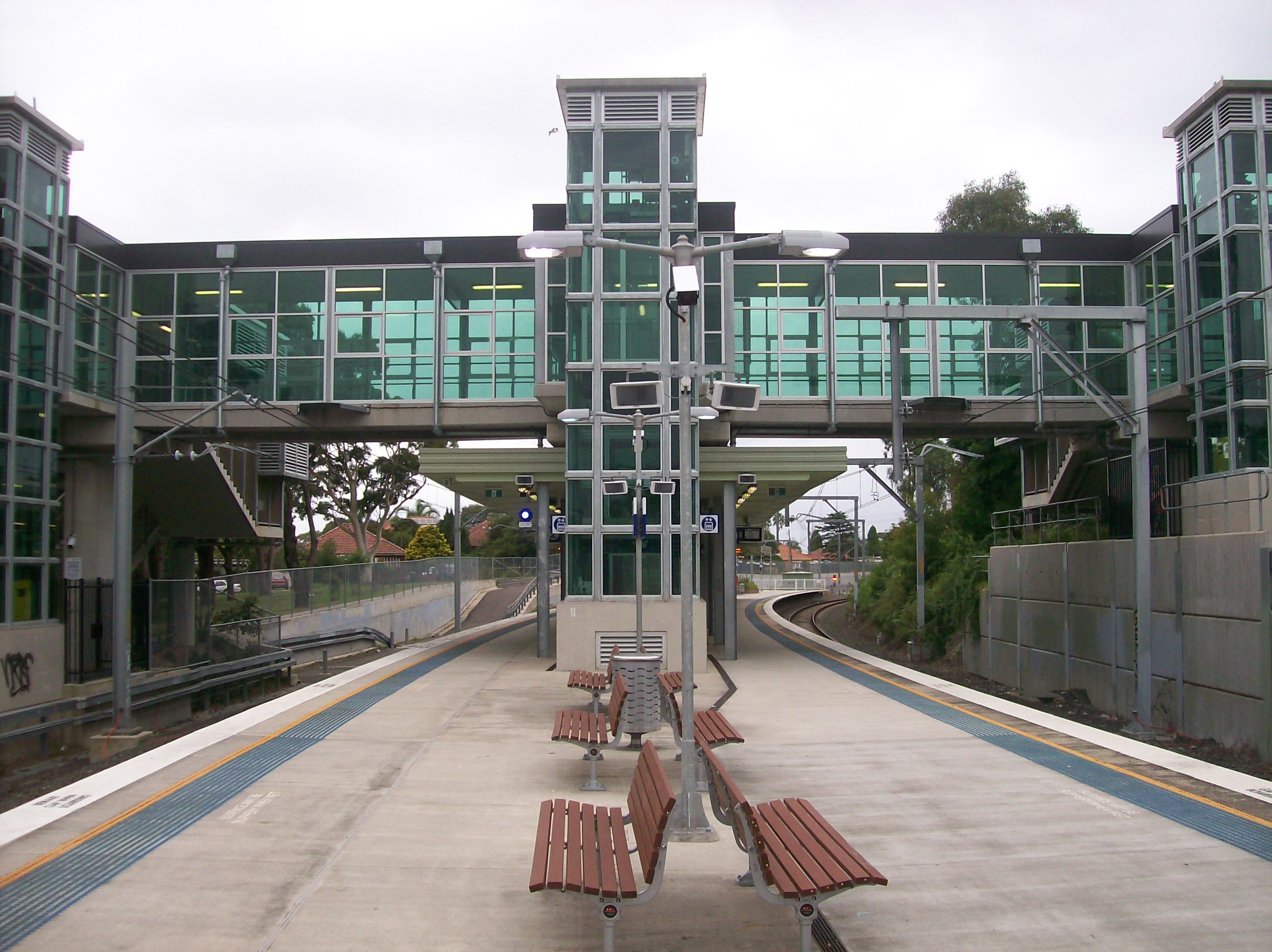 Woolooware railway station conrouse from platforms